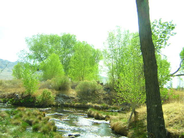 Crystal Spring — a natural spring and its stream, flowing in Lincoln County, Nevada. Near the US 93-318-375 Junction, and Crystal Spring ghost town.